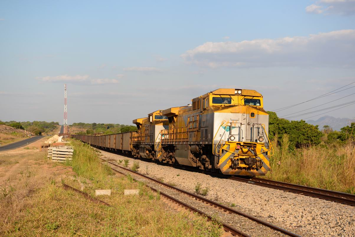 Coal Train Nacala - Moatize with engines 1863 + 1864 in front and 1820 + 1848 in the middle between Rapale and Caramaja at stop point Muitvaze on 26.08.2018.